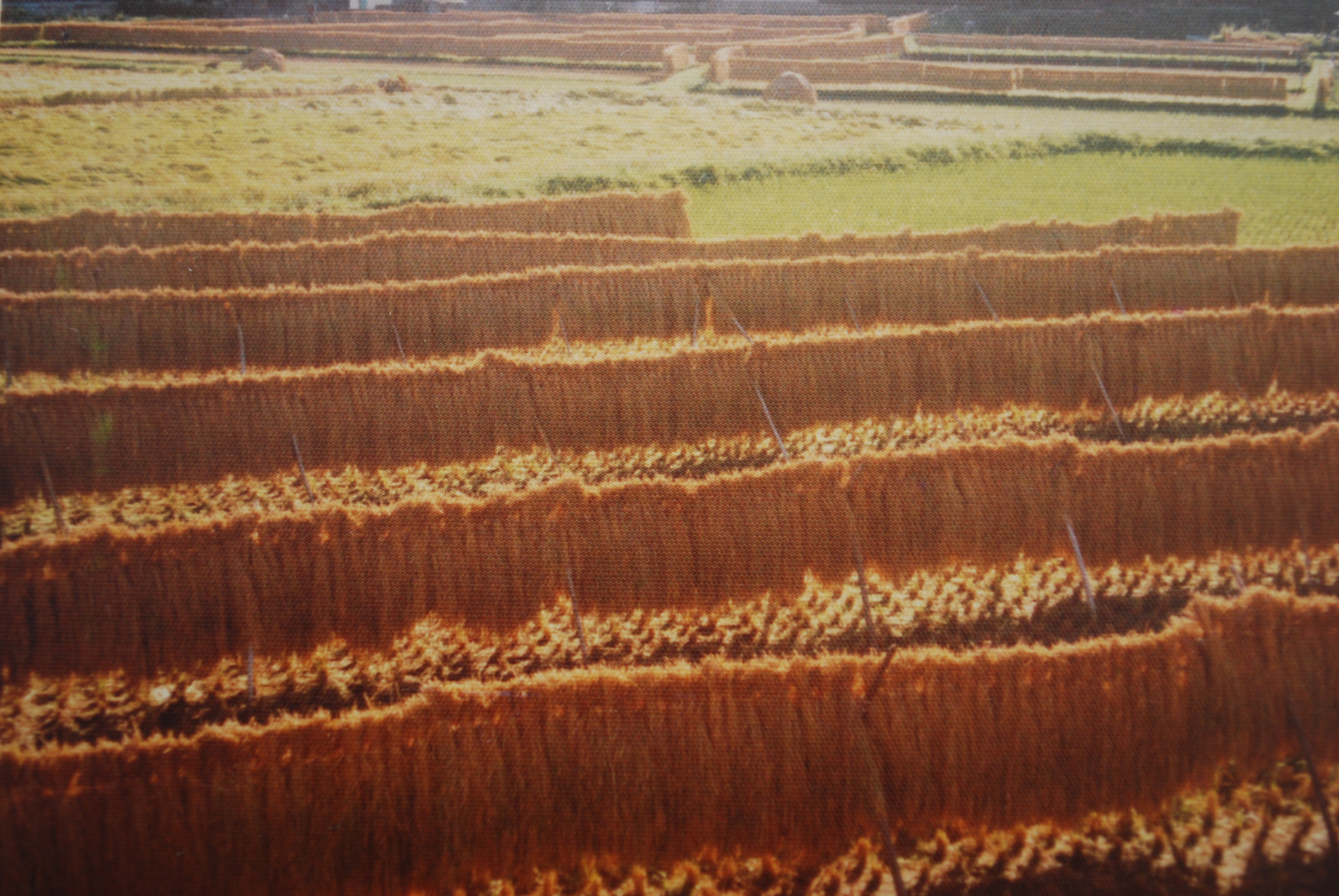 Draw off rice of about 1980,Sawara,Katori-city,Japan